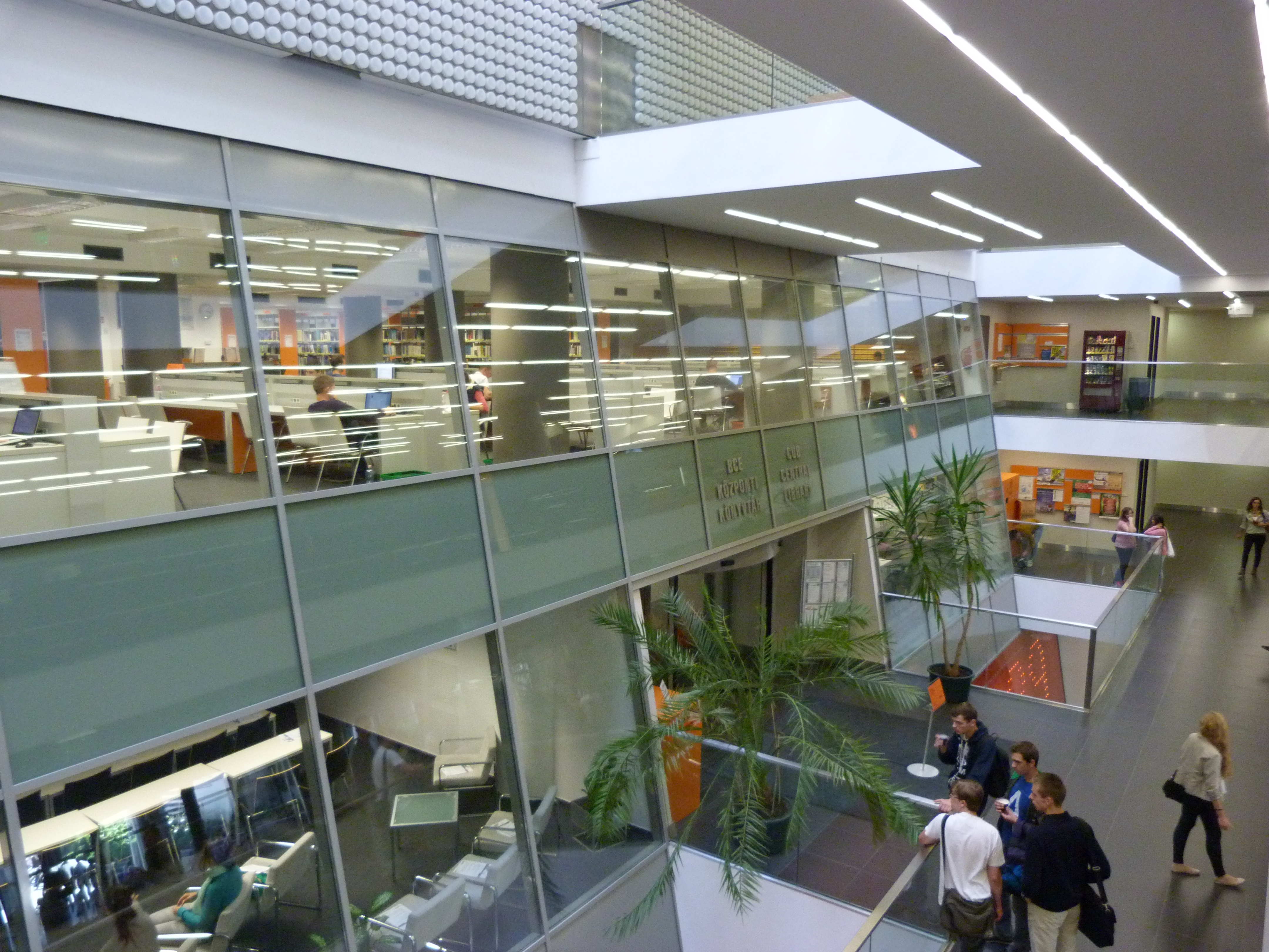 Clark S. Judge delivered his lecture titled "US Midterm elections: Is the Republican Party in its Death Throes ? " at Corvinus University, Budapest, Hungary. Judge had been the speech writer of Ronald Reagen. He works for the Wall Street Journal, New York Times, Financial Times etc. ©© Derzsi Elekes Andor, Budapest 2014, You are authorised to use these photos and vids under Creative Commons – even for commercial, for profit purposes. Photos must be attributed to Derzsi Elekes Andor. All of the photos and vids in the Metapolisz DVD line are under Creative Commons and can be used even for commercial – for profit – purposes. Recommended Citation Derzsi Elekes Andor: Metapolisz DVD line